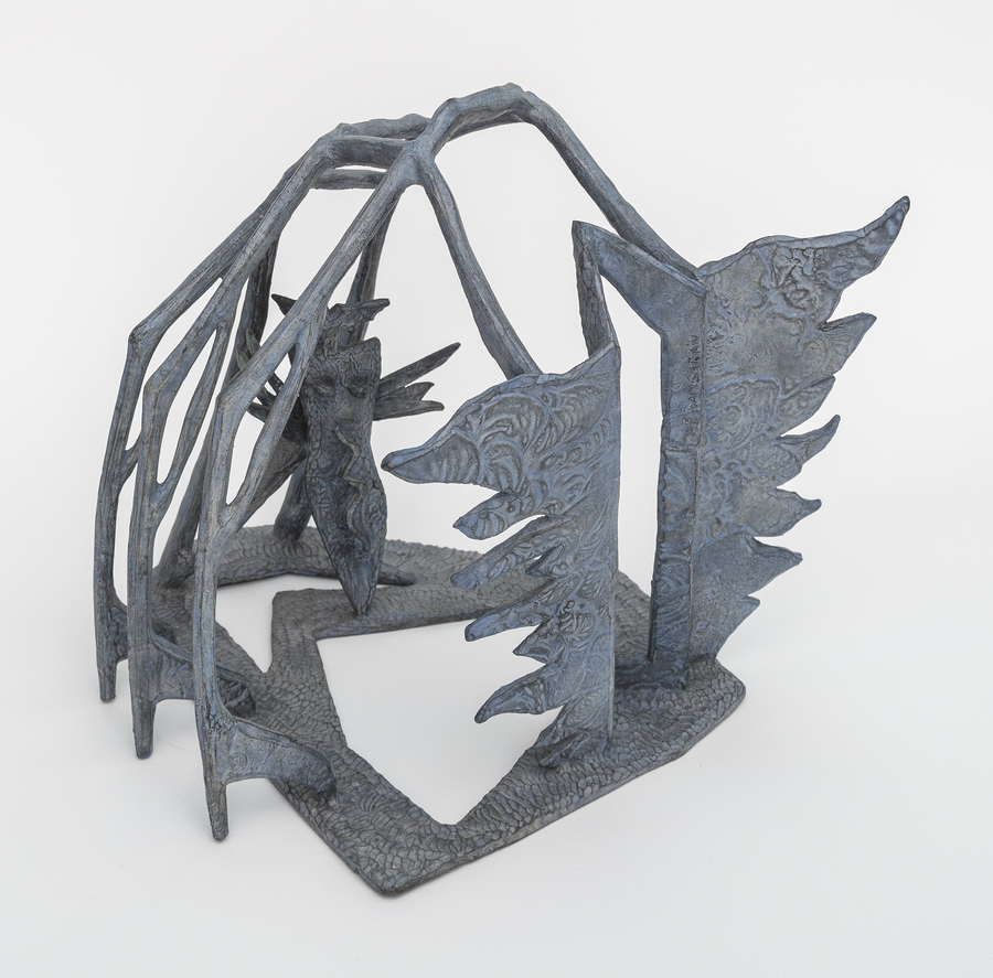 new photographed version of piece, Image Courtesy the Artist, Helen Ramsaran